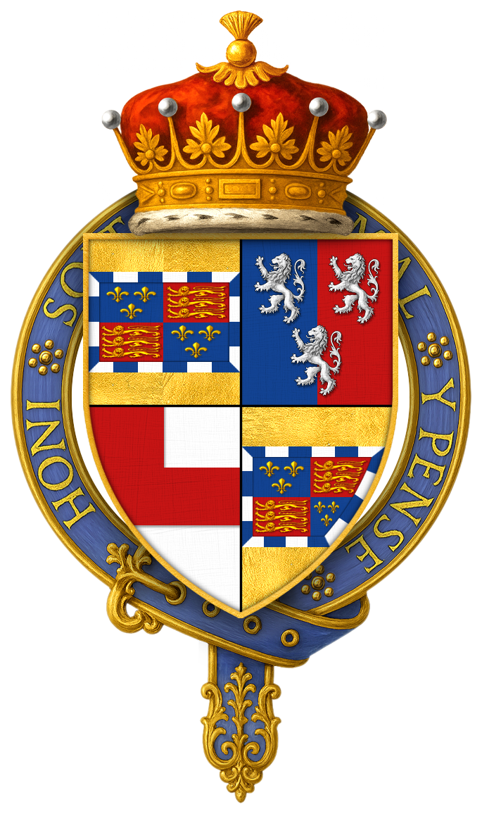 Quartered arms of Sir Edward Somerset, 4th Ear of Worcester, KG. 1&4: Somerset (Legitimised Beaufort); 2: Herbert; 3: Woodville